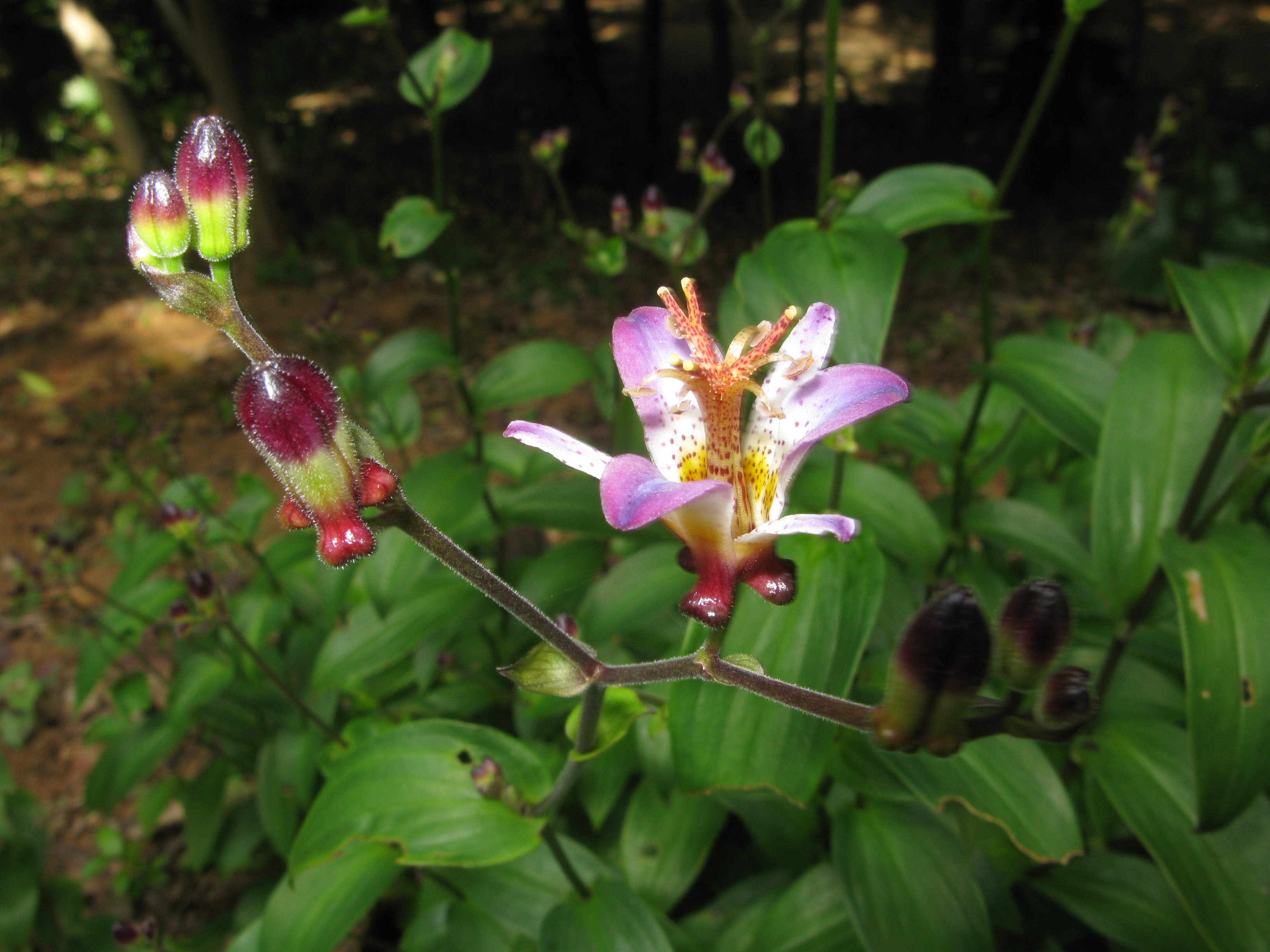 Tricyrtis formosana, Tsukuba Botanical Garden, Ibaraki pref., Japan